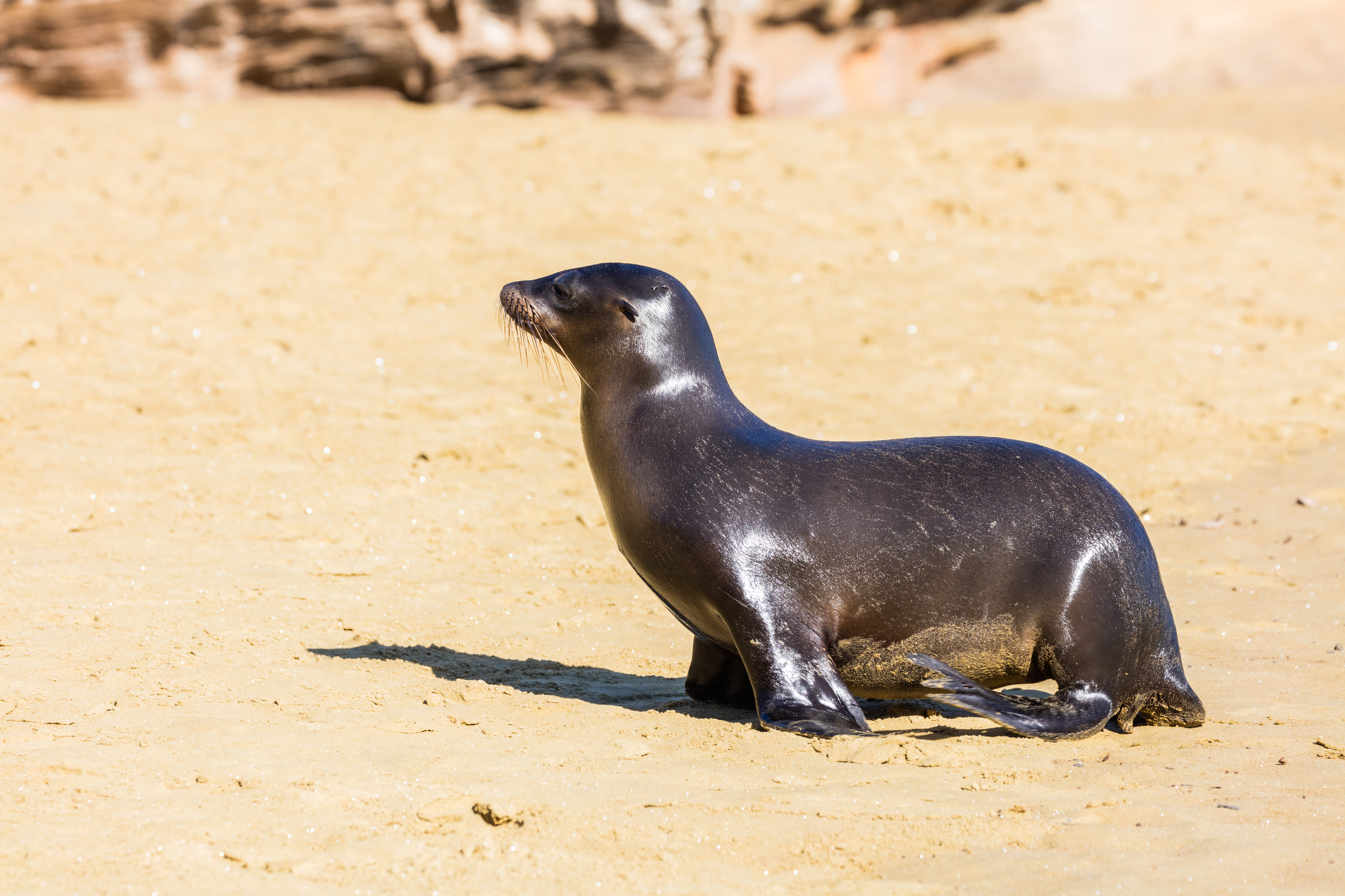 Sea lion (Zalophus californianus wollebaeki), Punta Pitt, San Cristobal island, Galapagos islands, Ecuador